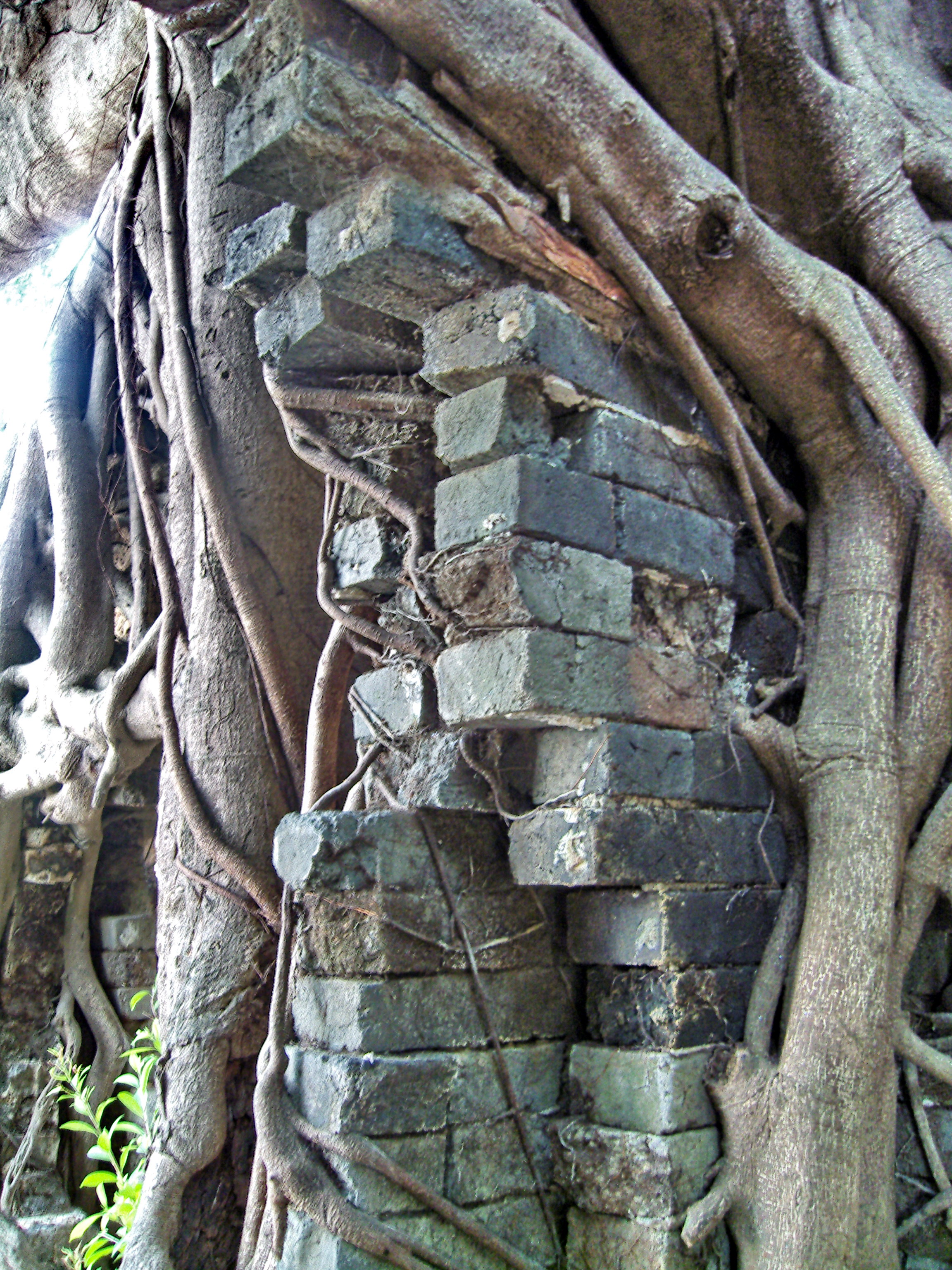 Kam Tin Tree House (An old banyan tree grew bigger and bigger besides the stone house, and after centuries, there're only part of brick walls and a granite doorframe left under the huge tree.) in Shui Mei Village Kam Tin, Hong Kong.